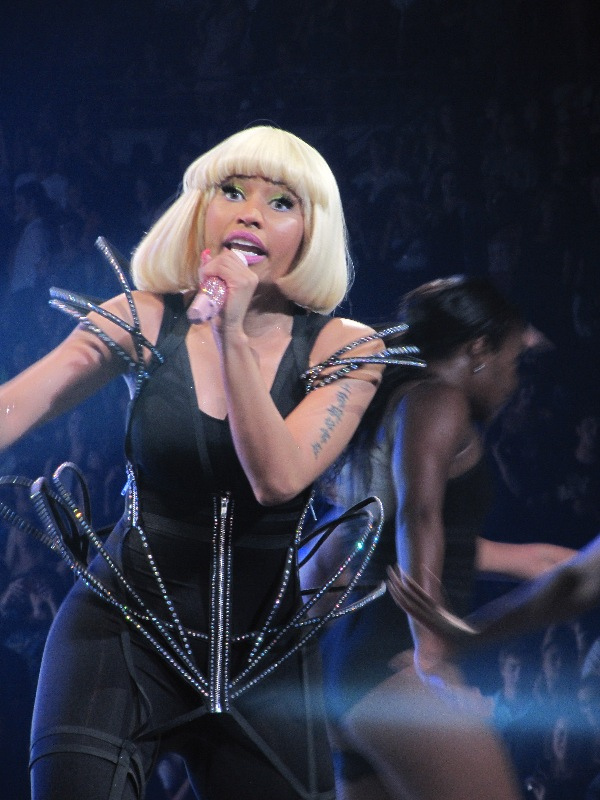 Nicki Minaj live on Femme Fatale Tour in 2011.